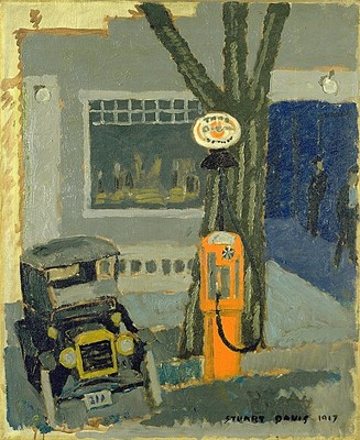 Photograph of Garage No. 1, 1917, oil on canvas, by Stuart Davis in the public domain. Hirshhorn Museum and Sculpture Garden.